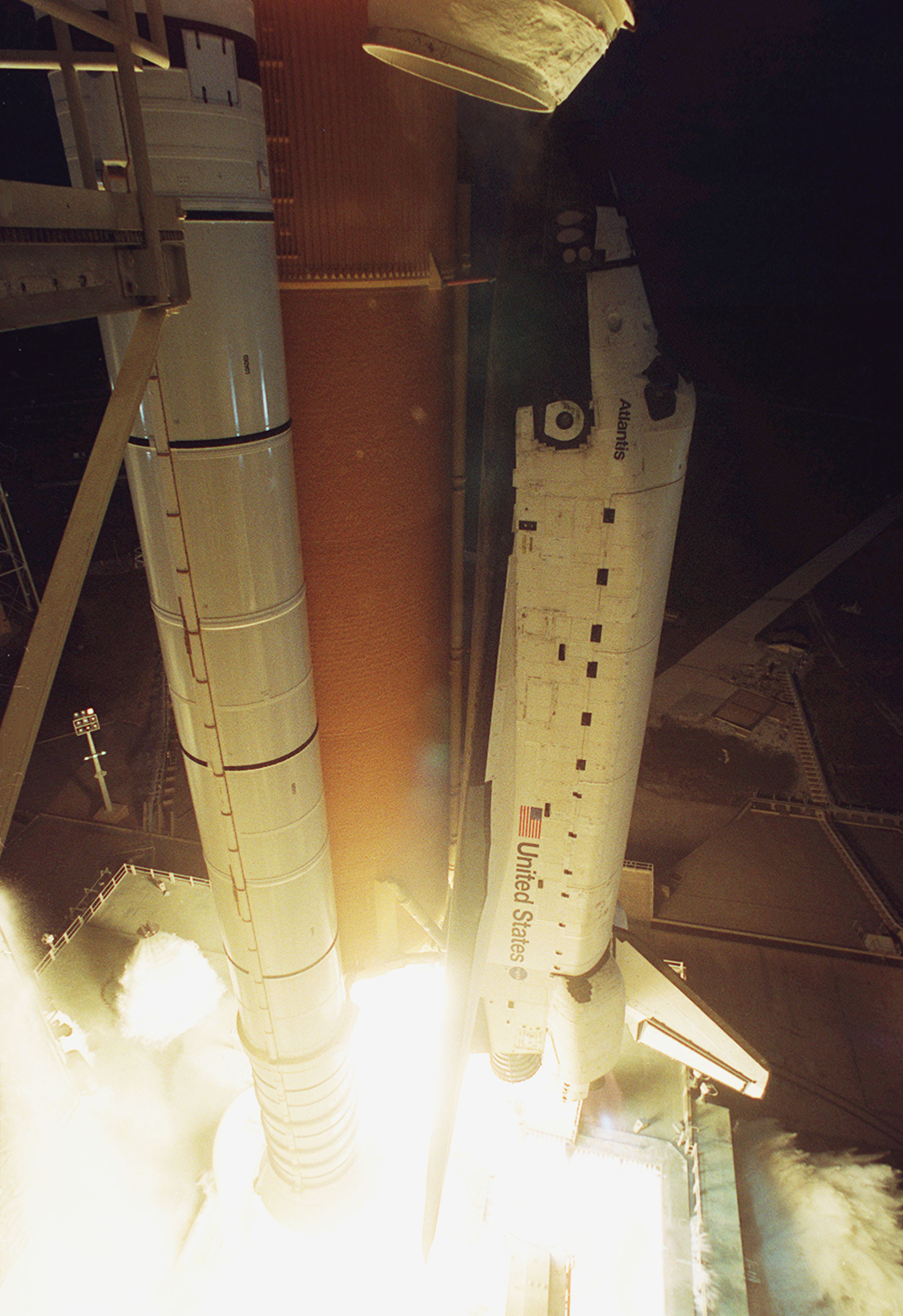 Space Shuttle Atlantis leaps up from the flames and smoke behind it as it lifts off from Launch Pad 39A into the early evening sky. Liftoff occurred at 6:13:02 p.m. EST. Along with a crew of five, Atlantis is carrying the U.S. Laboratory Destiny, a key module in the growth of the Space Station. Destiny will be attached to the Unity node on the Space Station using the Shuttle’s robotic arm. Three spacewalks are required to complete the planned construction work during the 11-day mission. This mission marks the seventh Shuttle flight to the Space Station, the 23rd flight of Atlantis and the 102nd flight overall in NASA’s Space Shuttle program. The planned landing is at KSC Feb. 18 about 1:00 p.m. EST.